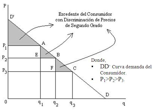 second-degree price discrimination